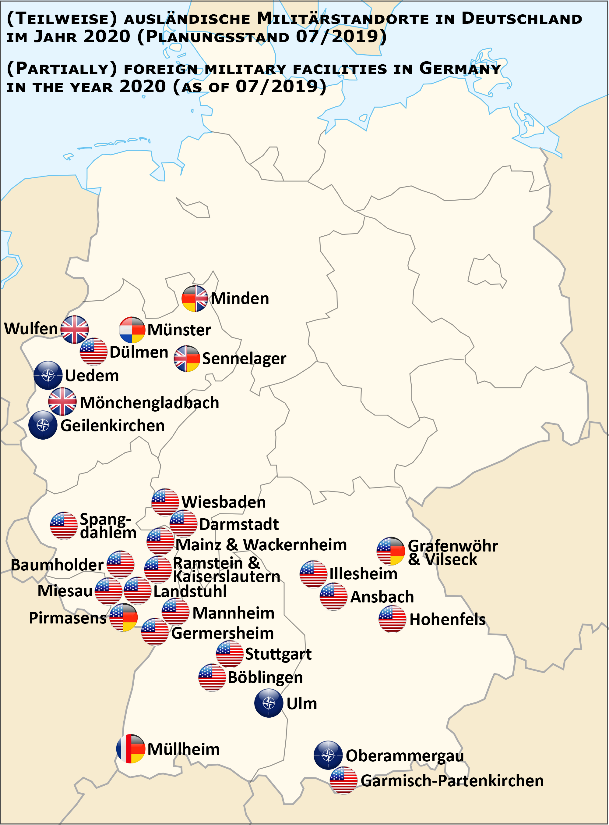 (Partially) foreign military installations in Germany projected for 2020 according to plans as of 10/2014.